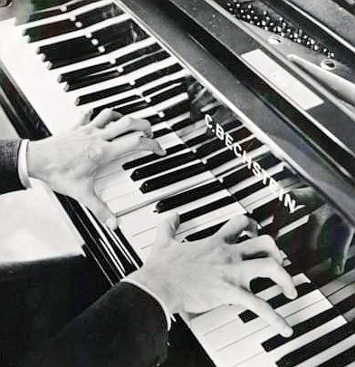 Hands of Romanian pianist Dinu Lipatti (1917-1950).